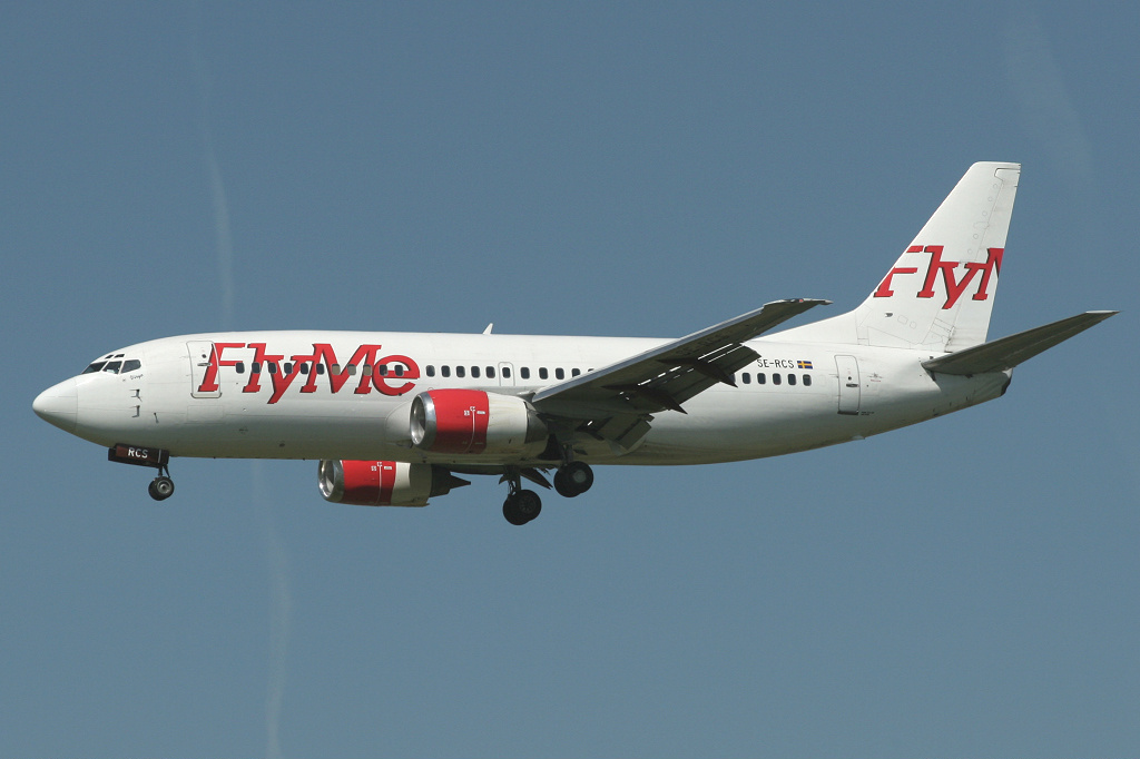 SE-RCS, FlyMe Boeing 737-3Q8 at Amsterdam Schiphol Airport